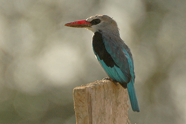 Uganda Woodland Kingfisher (Halcyon senegalensis) Entebbe, Uganda